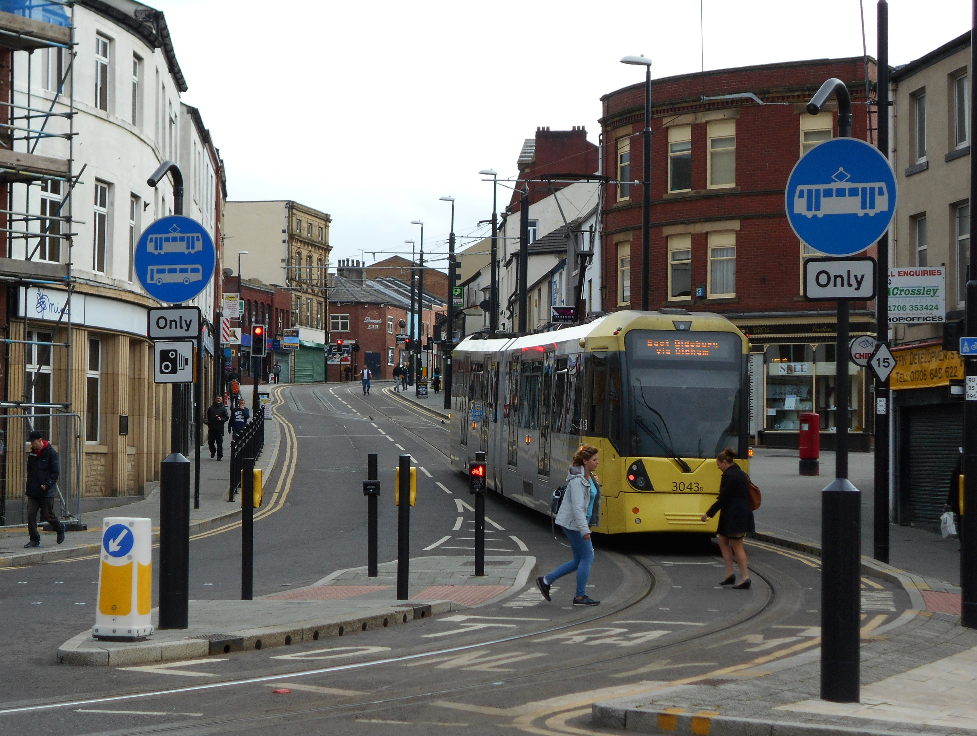 A tram running through the streets towards Rochdale railway station.